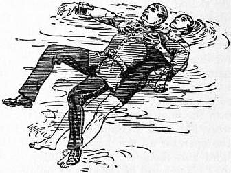 3rd Rescue Method. If the arms be difficult to grasp, or the struggling so violent as to prevent a firm hold, the rescuer should slip his hands under the armpits of the drowning person, and place them on his chest or round his arms, then raise them at right angles to his body, thus placing the drowning person completely in his power. The journey to land can then be made by swimming on the back as in the other methods.